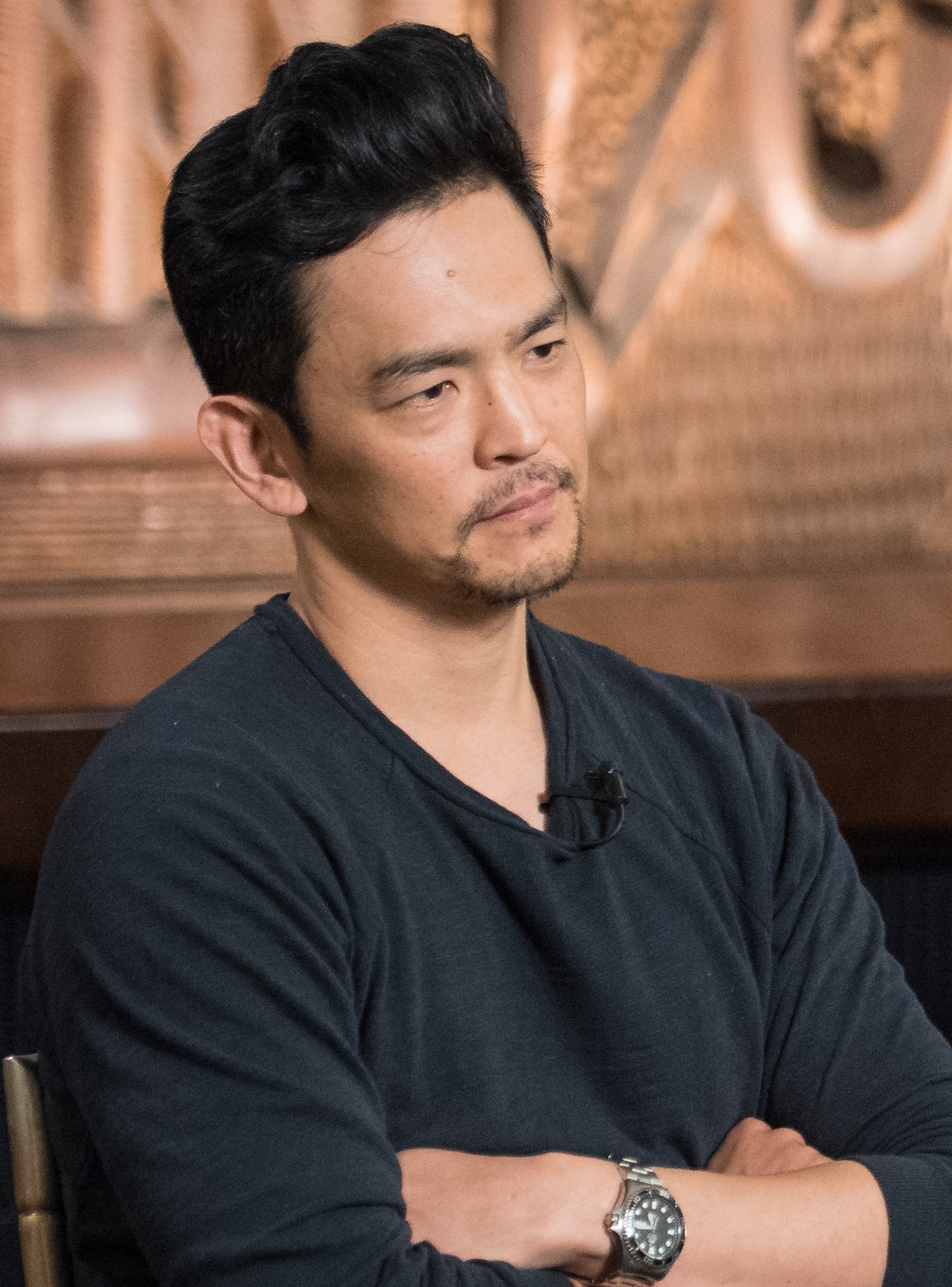 Actor John Cho in interviewed by NASA's Social Video Producer, Brittany Brown, Friday, June 1, 2018 at the John F. Kennedy Center for the Performing Arts ahead of the "National Symphony Orchestra Pops: Space, the Next Frontier," celebrating NASA's 60th Anniversary in Washington DC. The event featured music inspired by space including artists Will.i.am, Grace Potter, Coheed & Cambria, John Cho, and guest Nick Sagan, son of Carl Sagan.